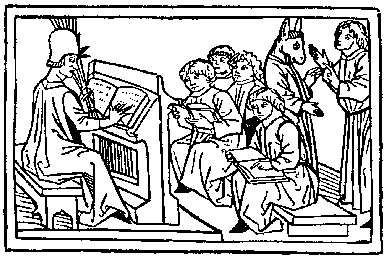 Magister mit Scholaren